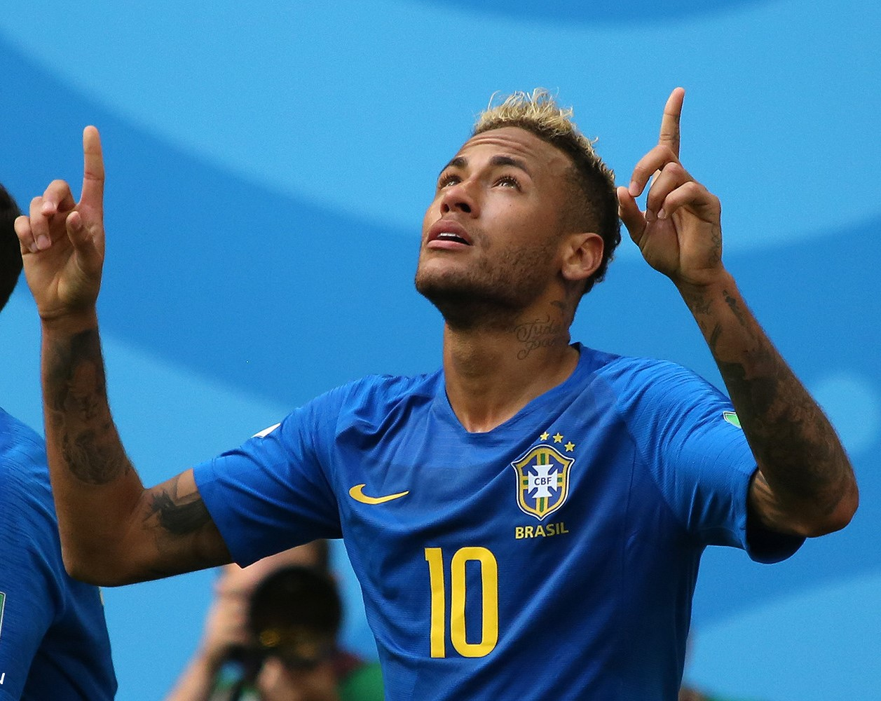 Neymar